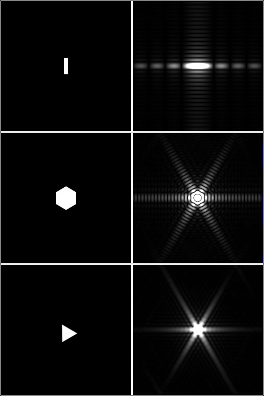 2D FFT. Left: aperture. Right: calculated Fourier Transformation (FFT) = calculated diffraction pattern.